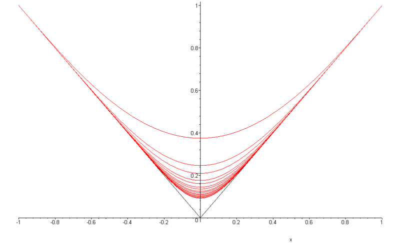 Theorem of Weierstrass : approximation of the absolute value function by Berstein polynomials.